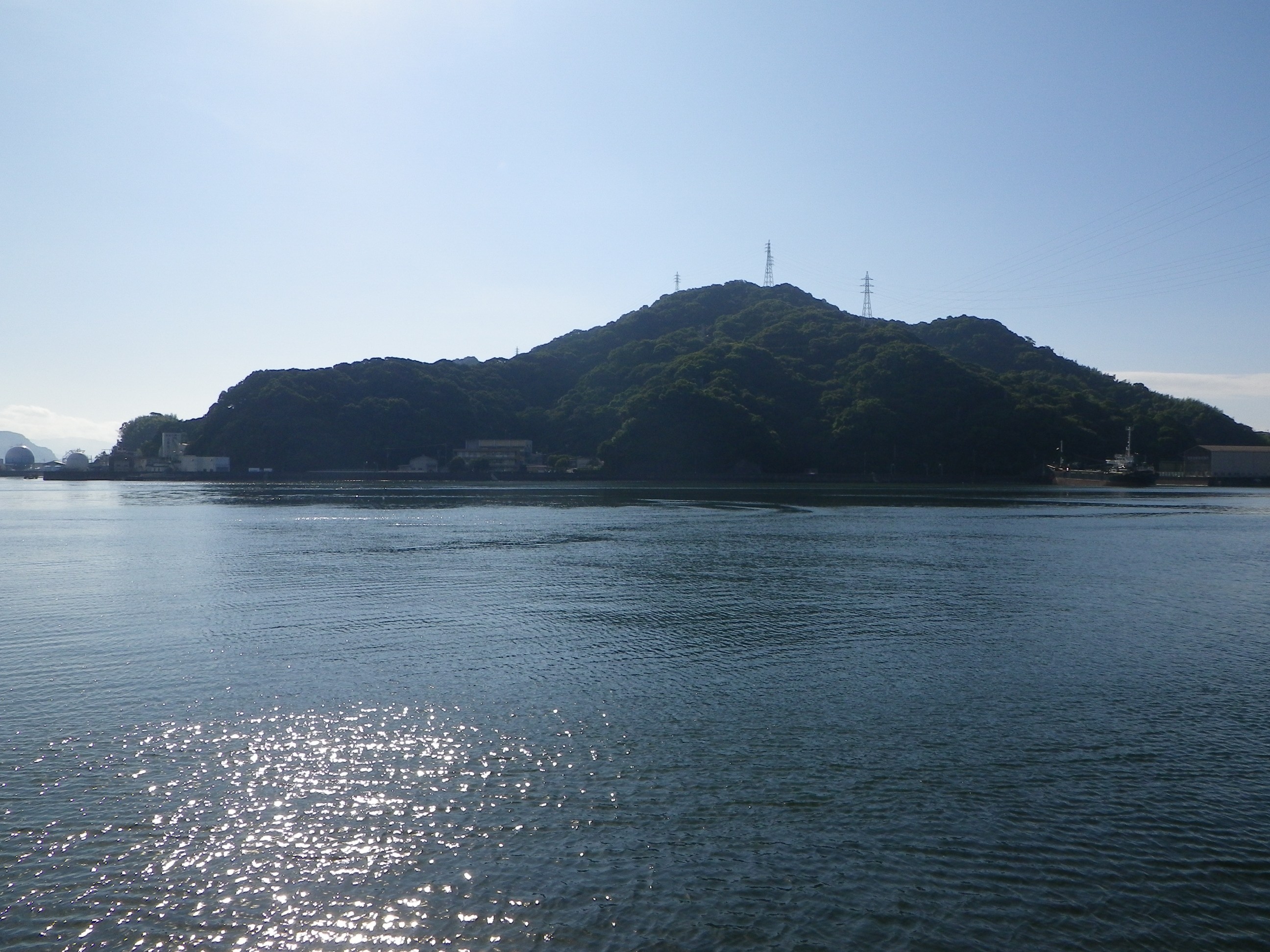 Harami mountains, Kochi, Urado bay.